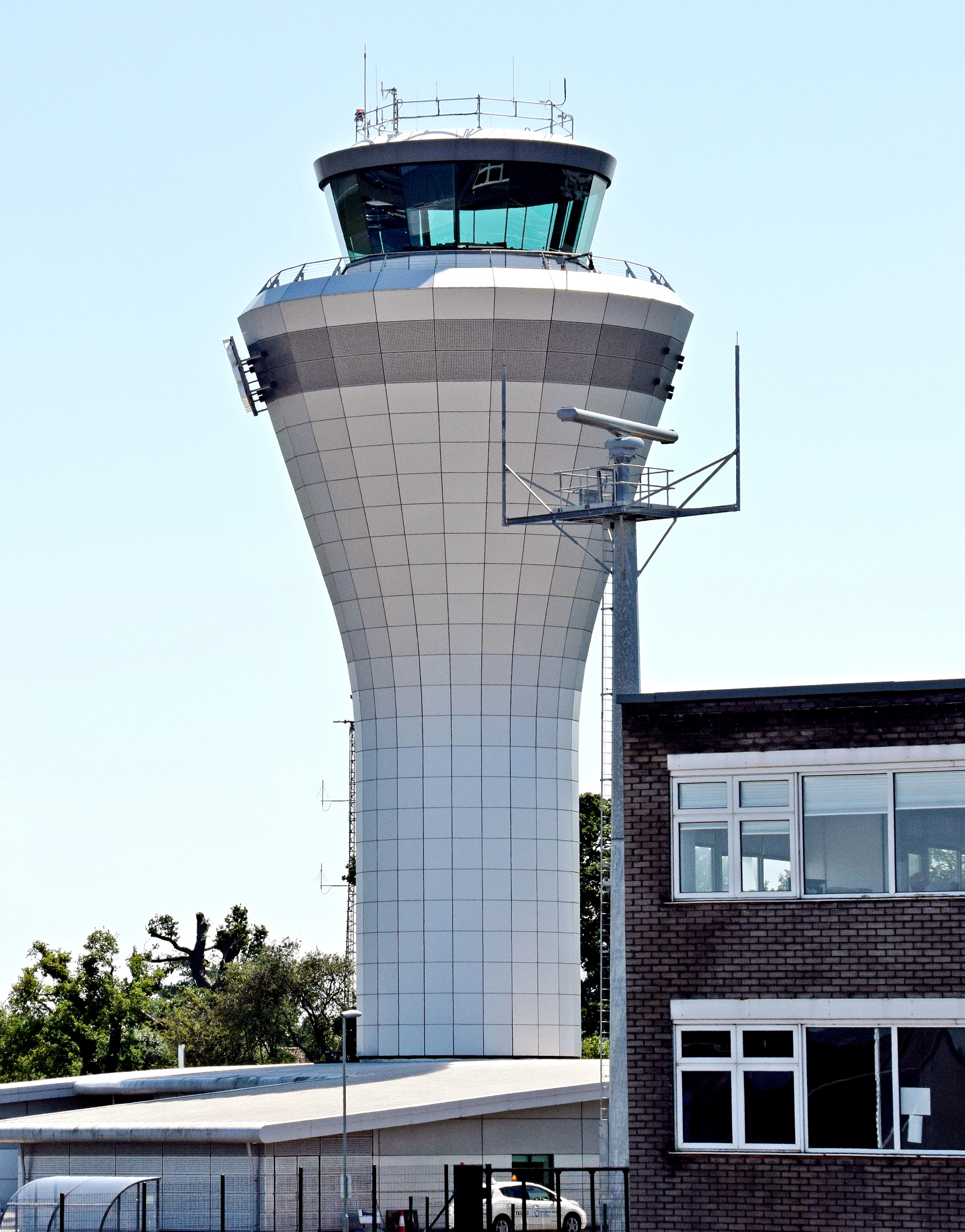 The control tower of Birmingham Airport, England. The tower is located in the airport area called Elmdon.